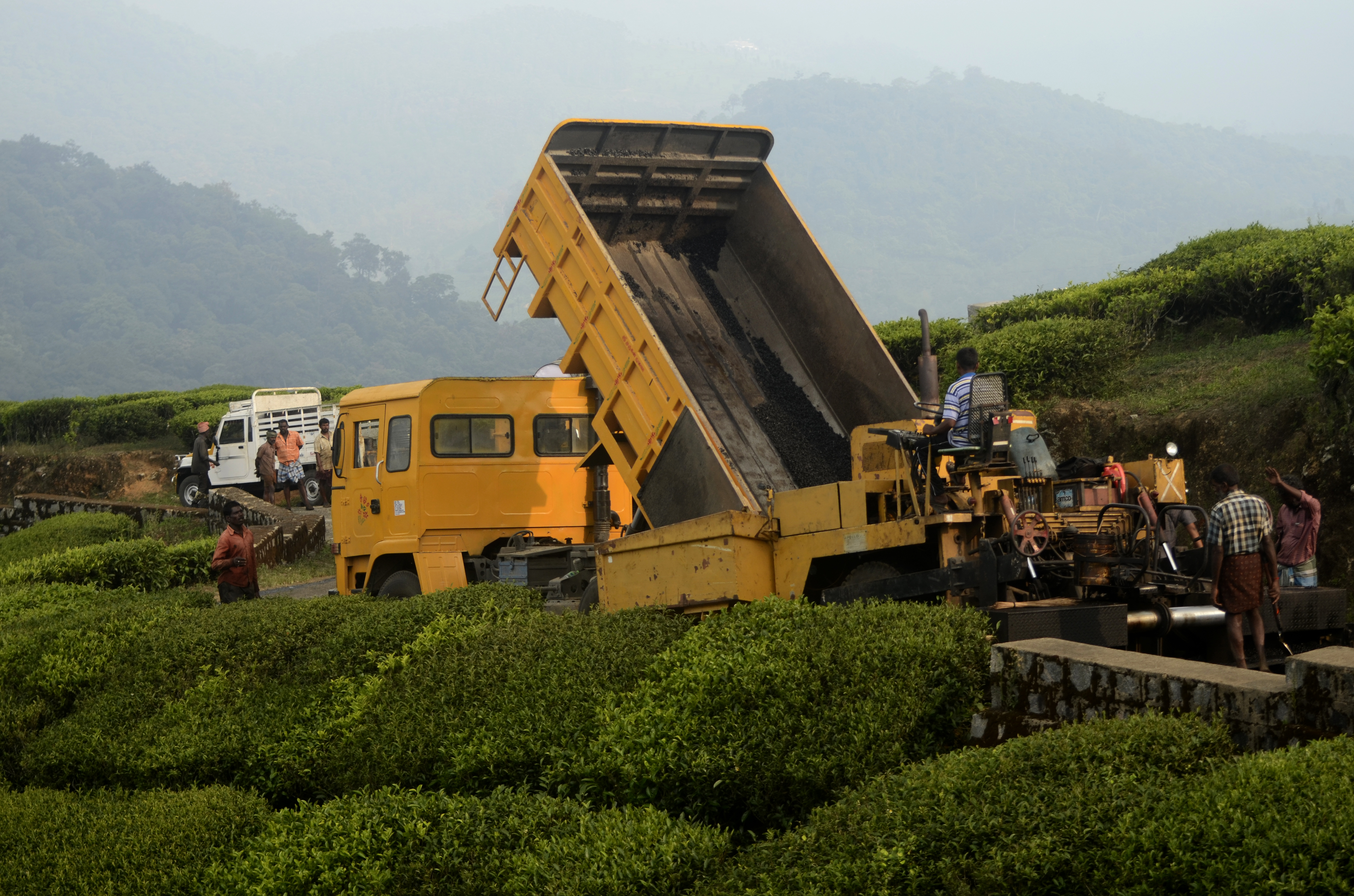 Road construction in progress in tea plantation_anaimalai hills, southern western ghats